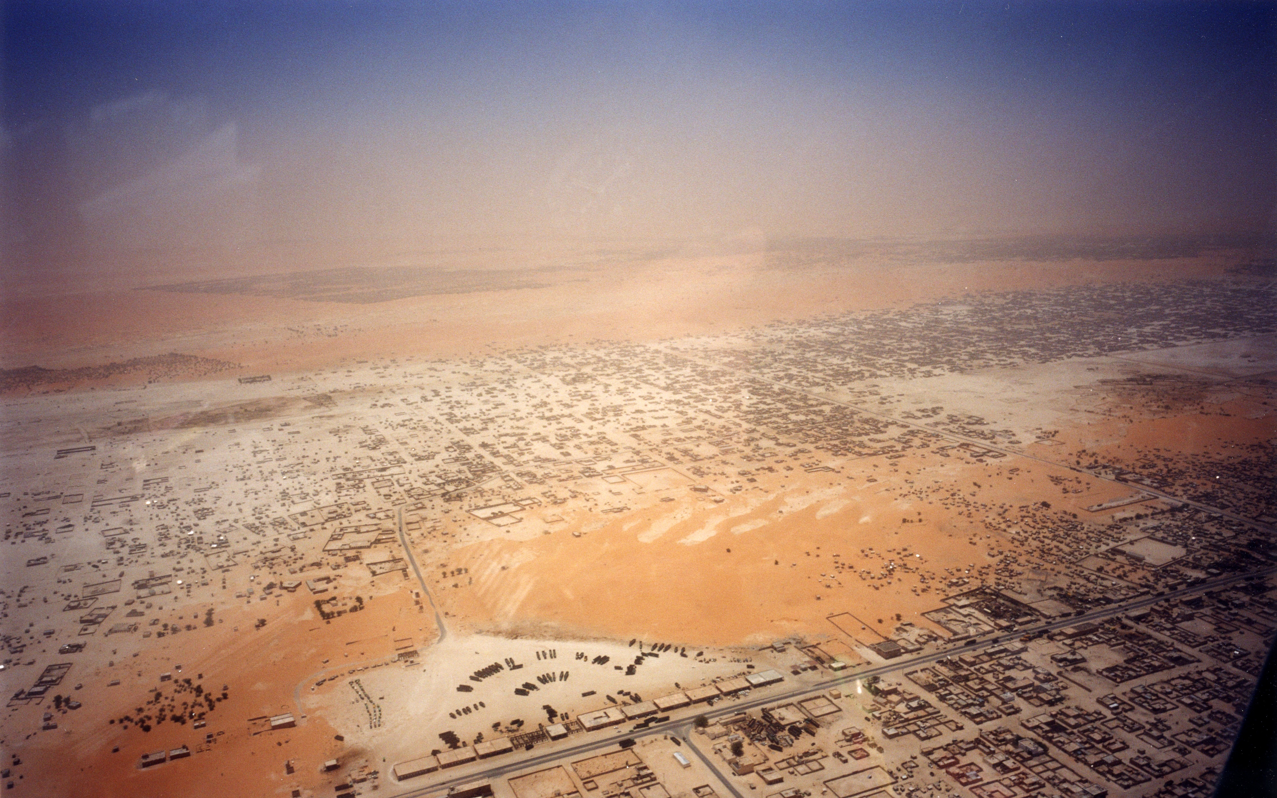 Nouakchott from the air